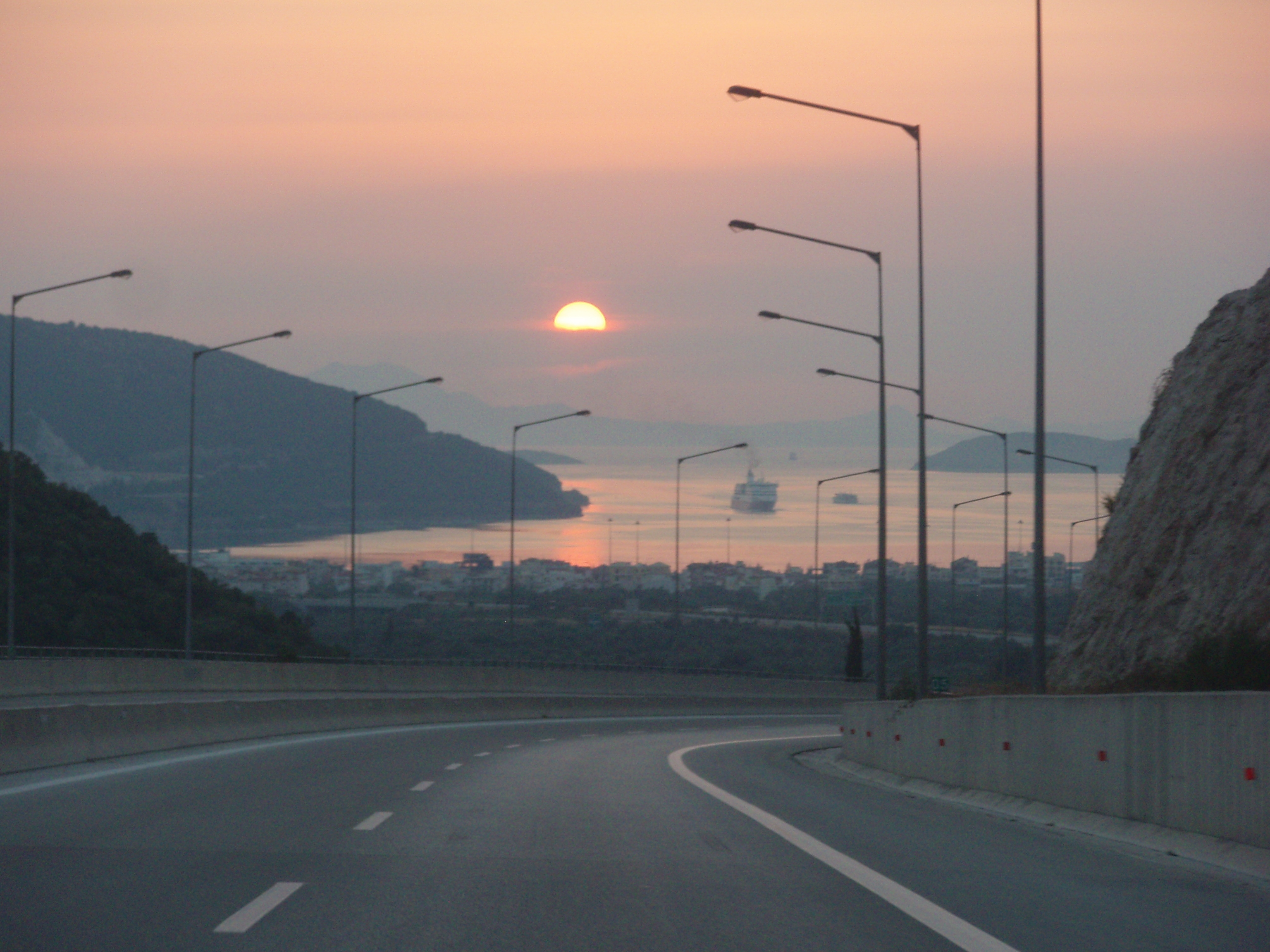 A2 motorway (Egnatia Odos) in Greece, section Paramythia-Igoumenitsa. The descent of the motorway to the port of Igoumenitsa is shown in the evening.